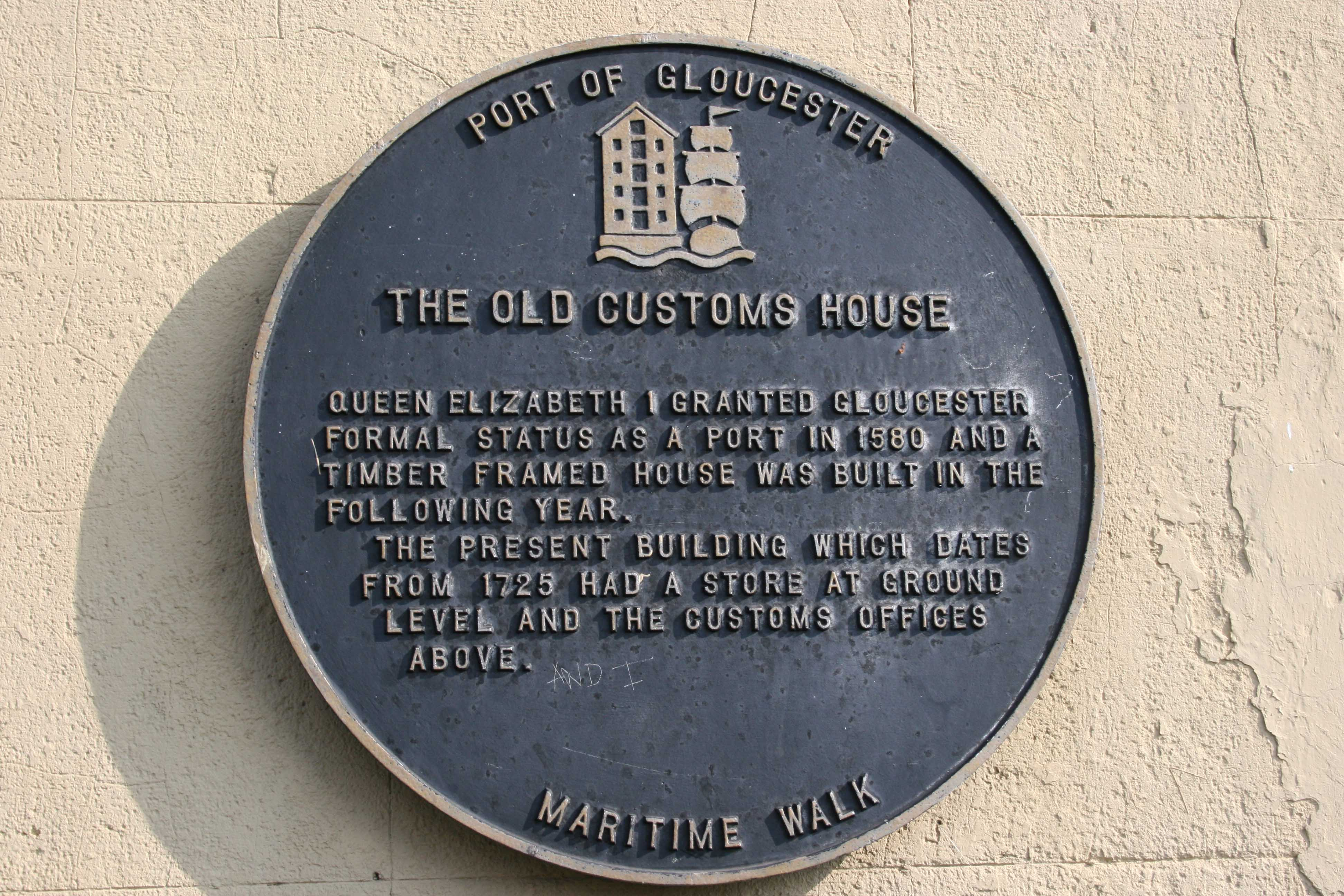 Plaque on Old customs house, gloucester, England. NB different from "new" customs house.